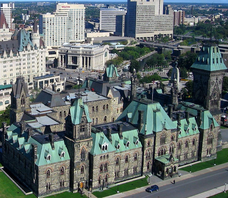 L'Édifice de l'Est du Parlement du Canada, vu depuis la Tour de la Paix - East Block of the Parliament of Canada, seen from the Peace Tower